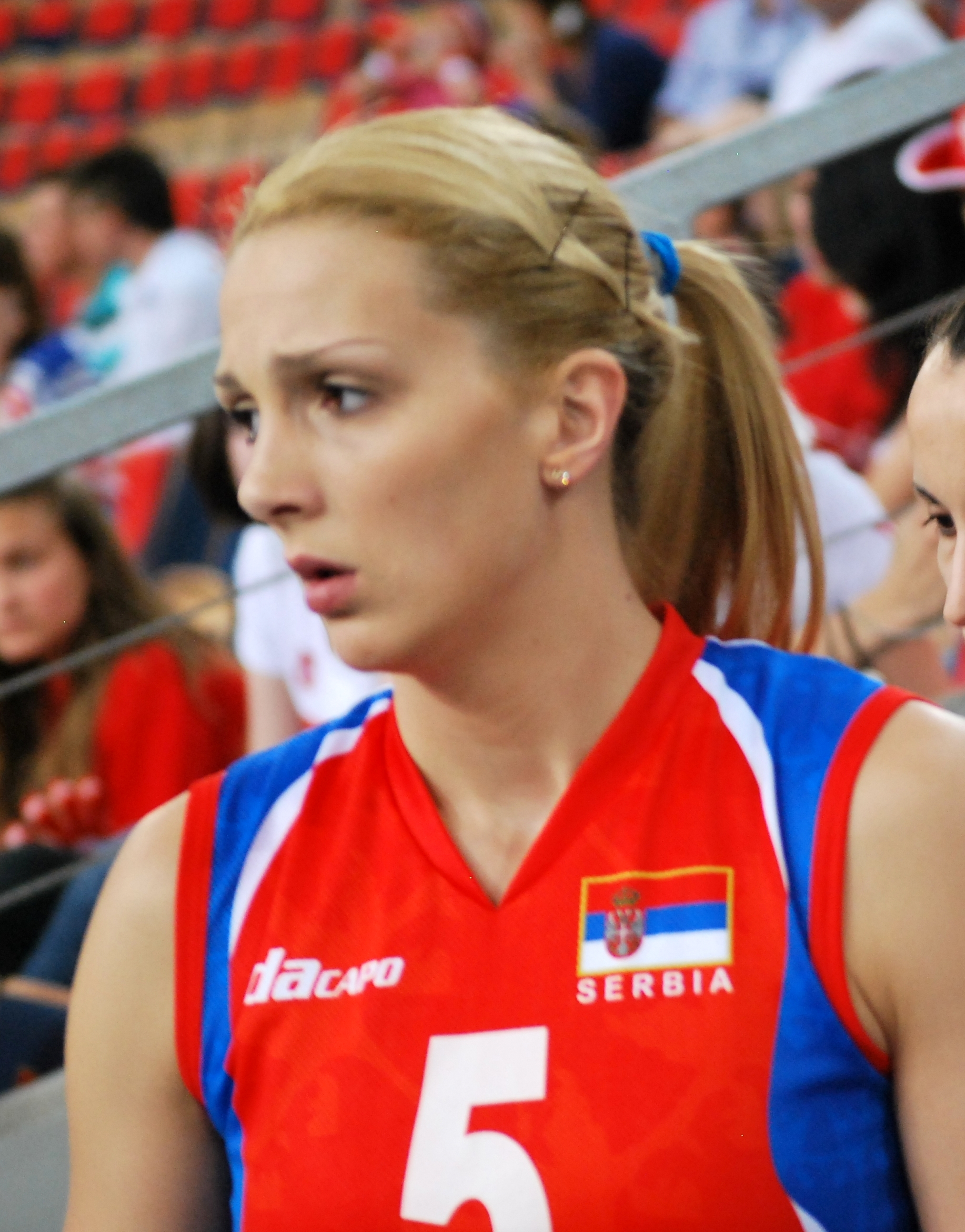 Nataša Krsmanović, volleyball player from Serbia